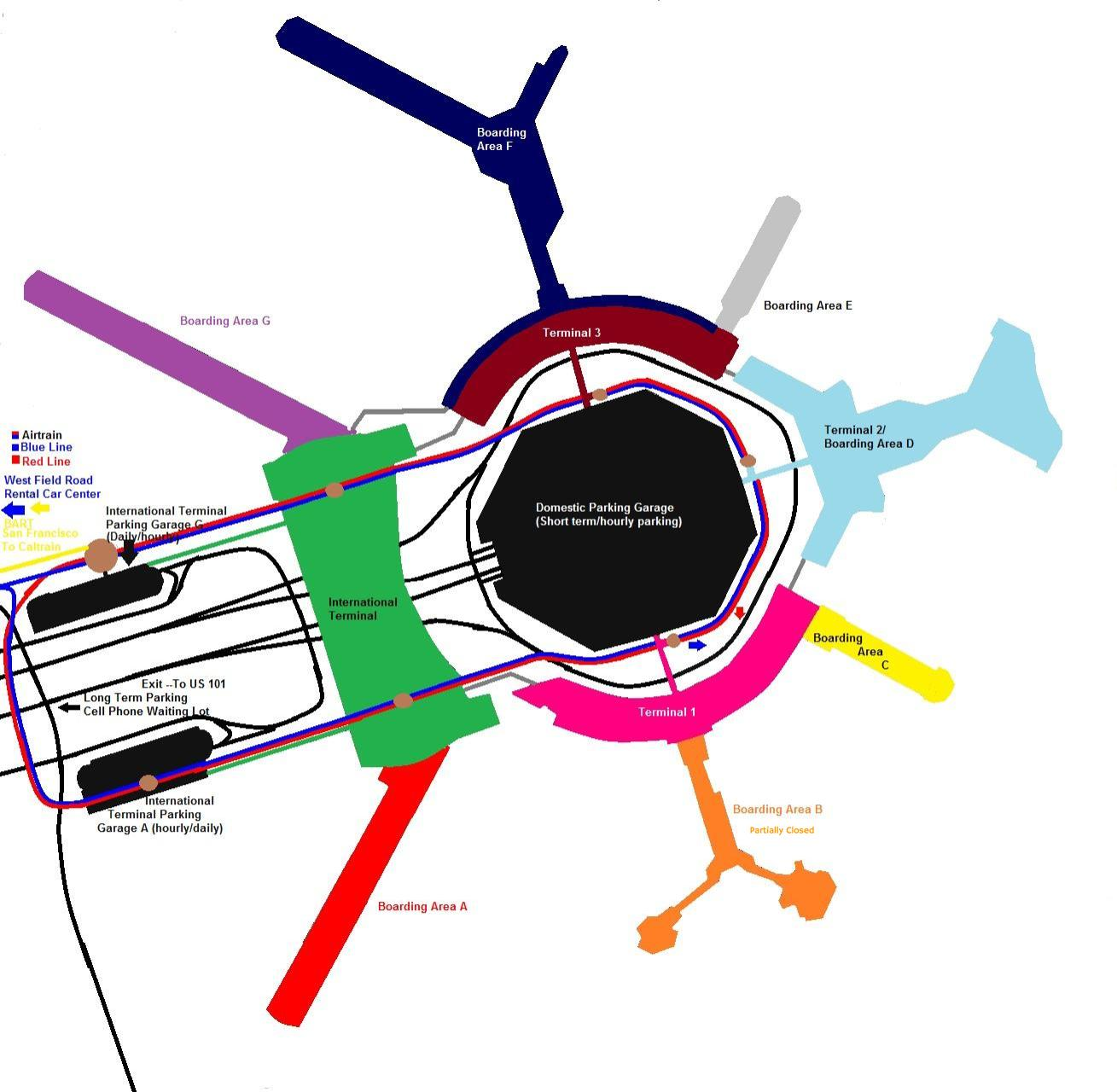 Diagram showing location of terminals at SFO Airport